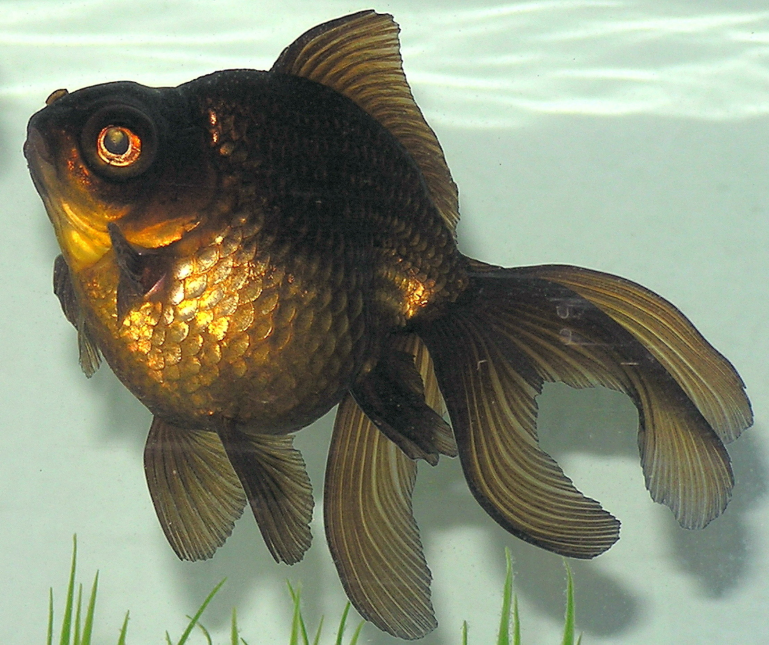 Profile of a large black moor goldfish.